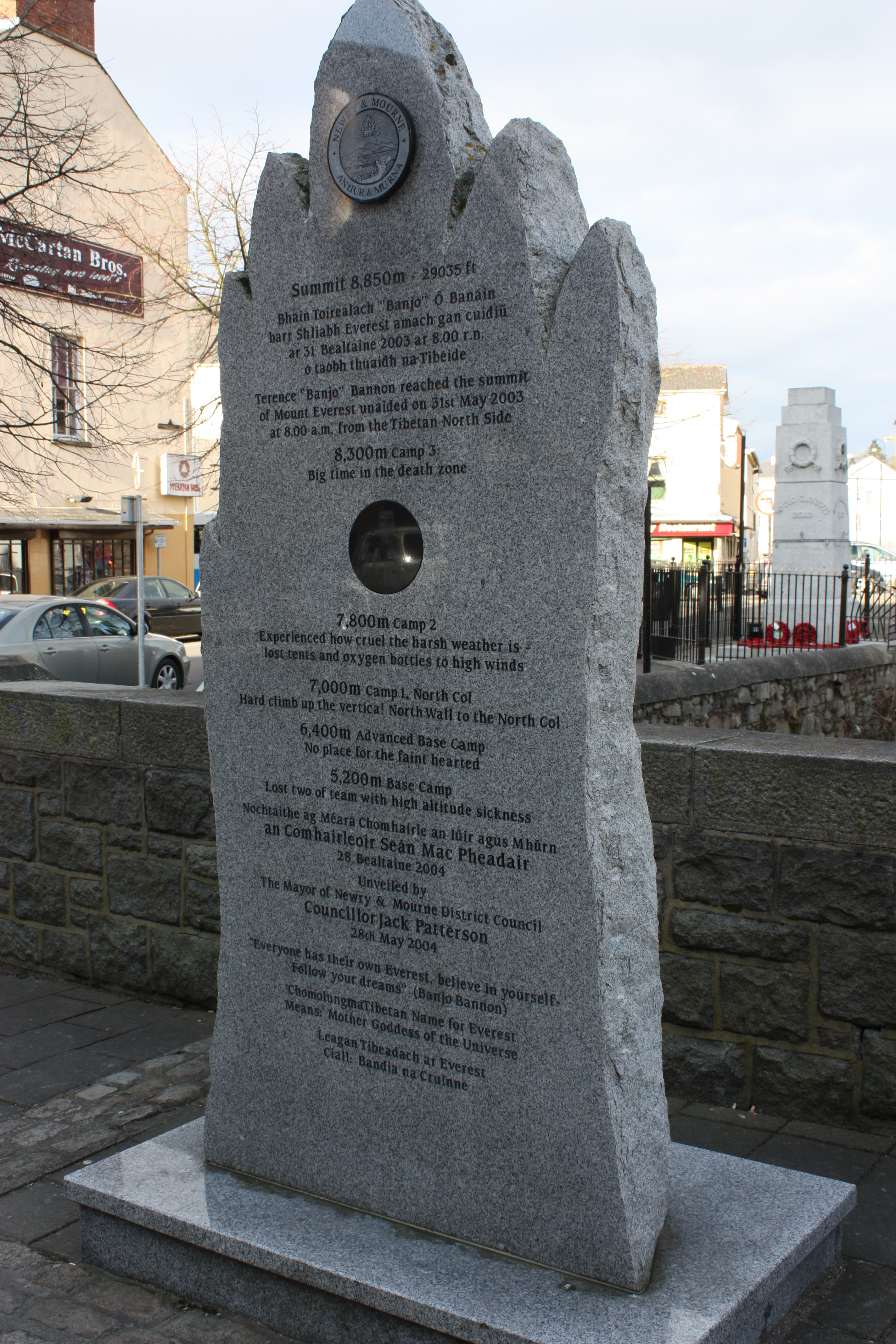 Monument to Terence 'Banjo' Bannon (who climbed Mout Everest), ArmaghDown Bridge, Newry, County Down, Northern Ireland, March 2010